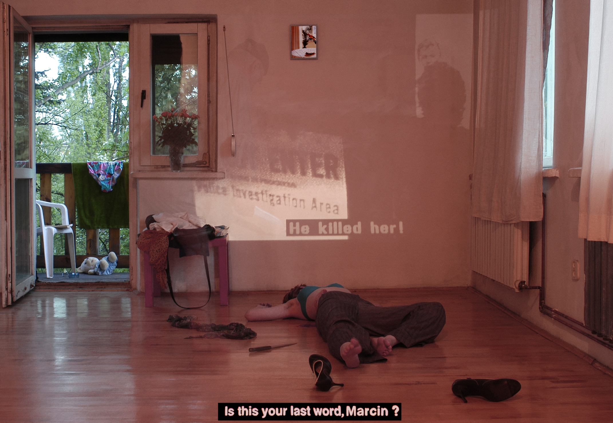 photographical work by Ryszard Wasko from the series "I am telling you a secret" - also known under the title "Is this your last word, Marcel?" - created for the Lodz Biennale 2004 (Poland) - dedicated to Marcel Duchamp